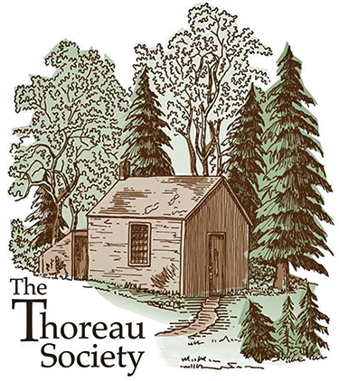 Thoreau Society logo